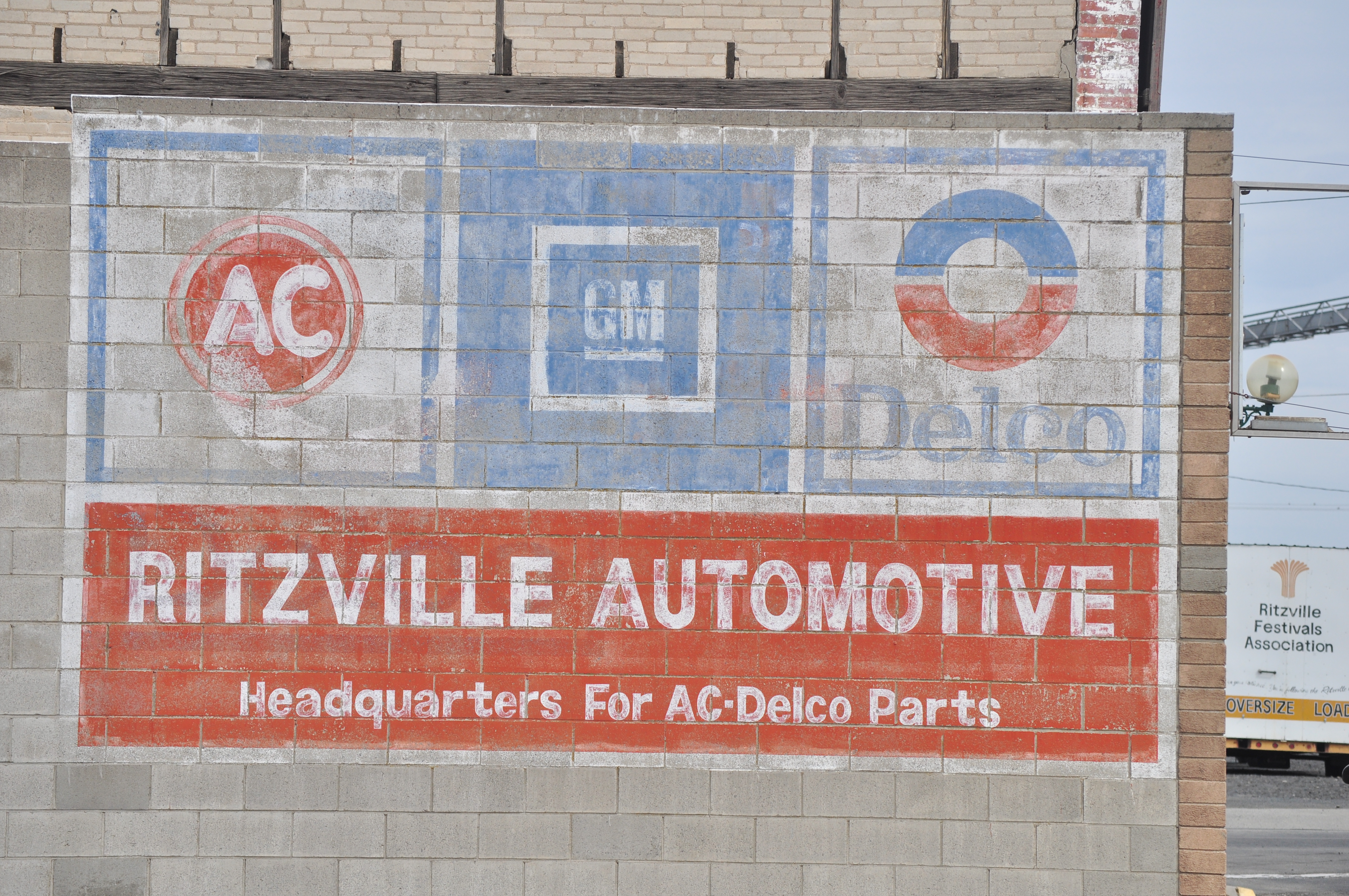 Sign at Ritzville Automotive, Railroad Ave, Ritzville, Washington, U.S.